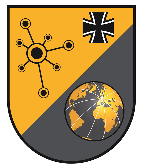 Internal coat of arms of the Bundeswehr (Armed Forces of the Federal Republic of Germany). → Remarks on naming and categorization scheme